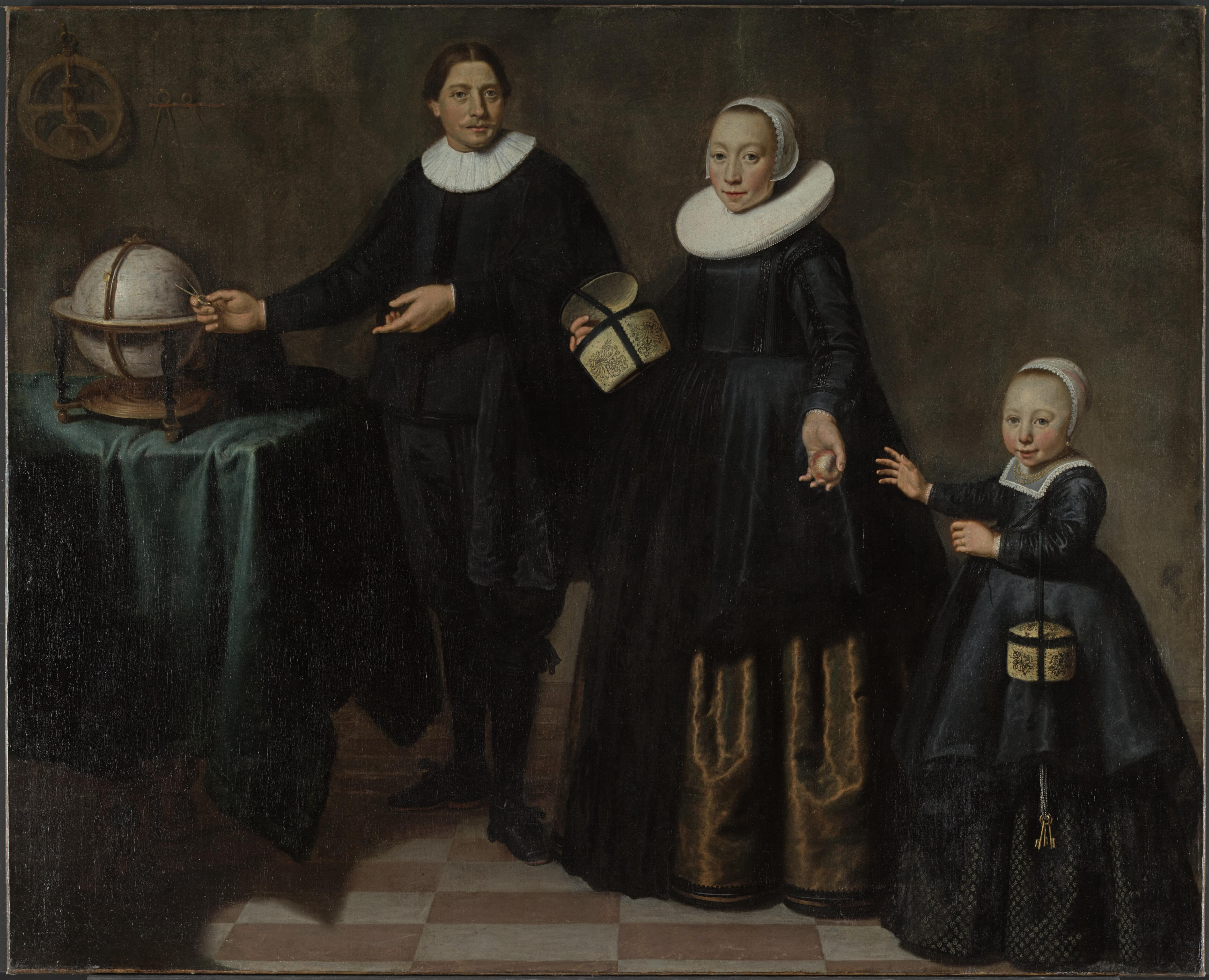 Portrait of Abel Tasman, his wife and daughter – further information is available from the National Gallery of Australia (external link)